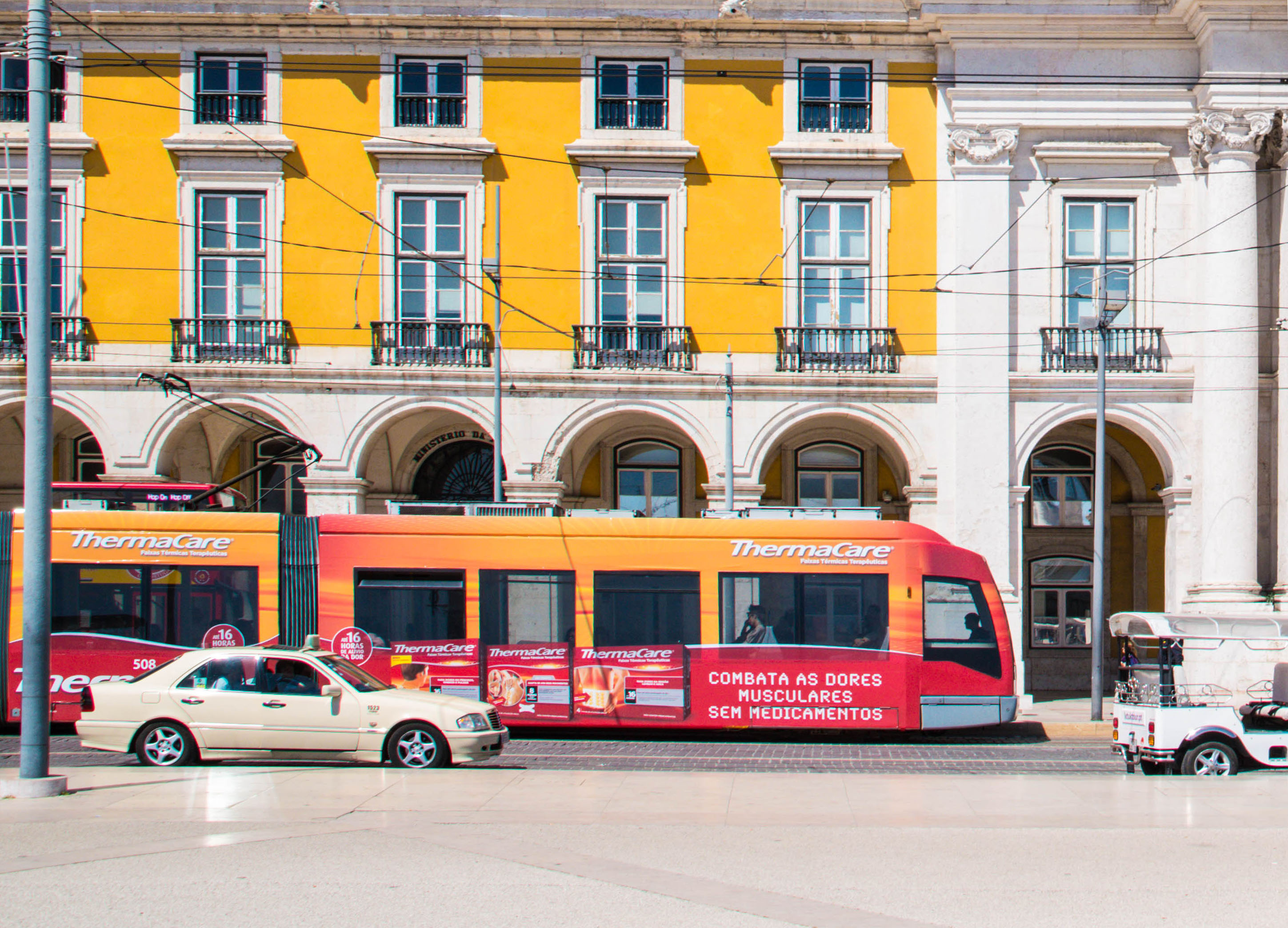 Commerce Square, Lisbon, Portugal